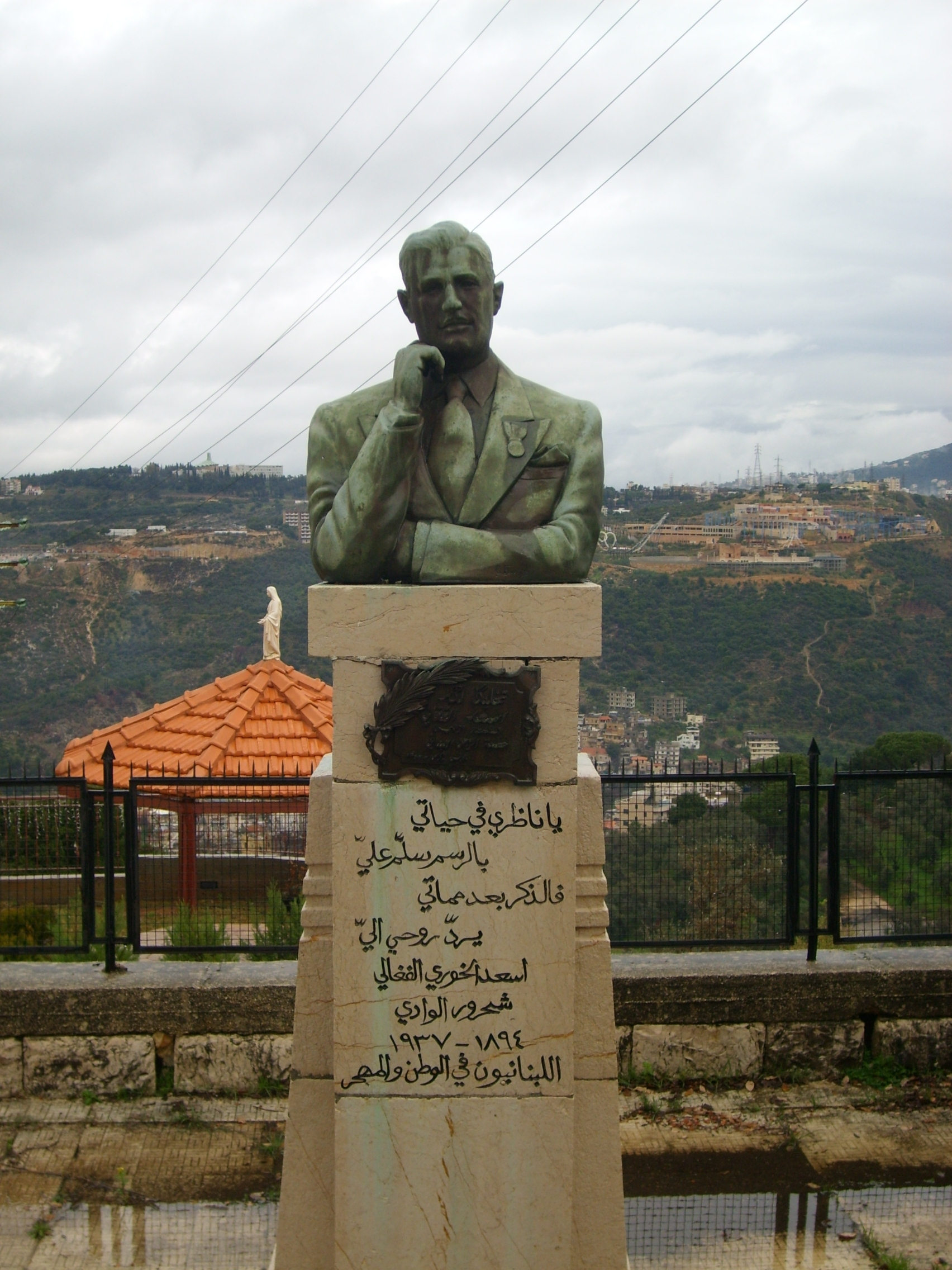 The bust of and monument for Assad Feghali — in Bdadoun, western Lebanon. The Mount Lebanon Range hills in backround. Picture that I took myself . Transwiki approved by: User:Dmcdevit